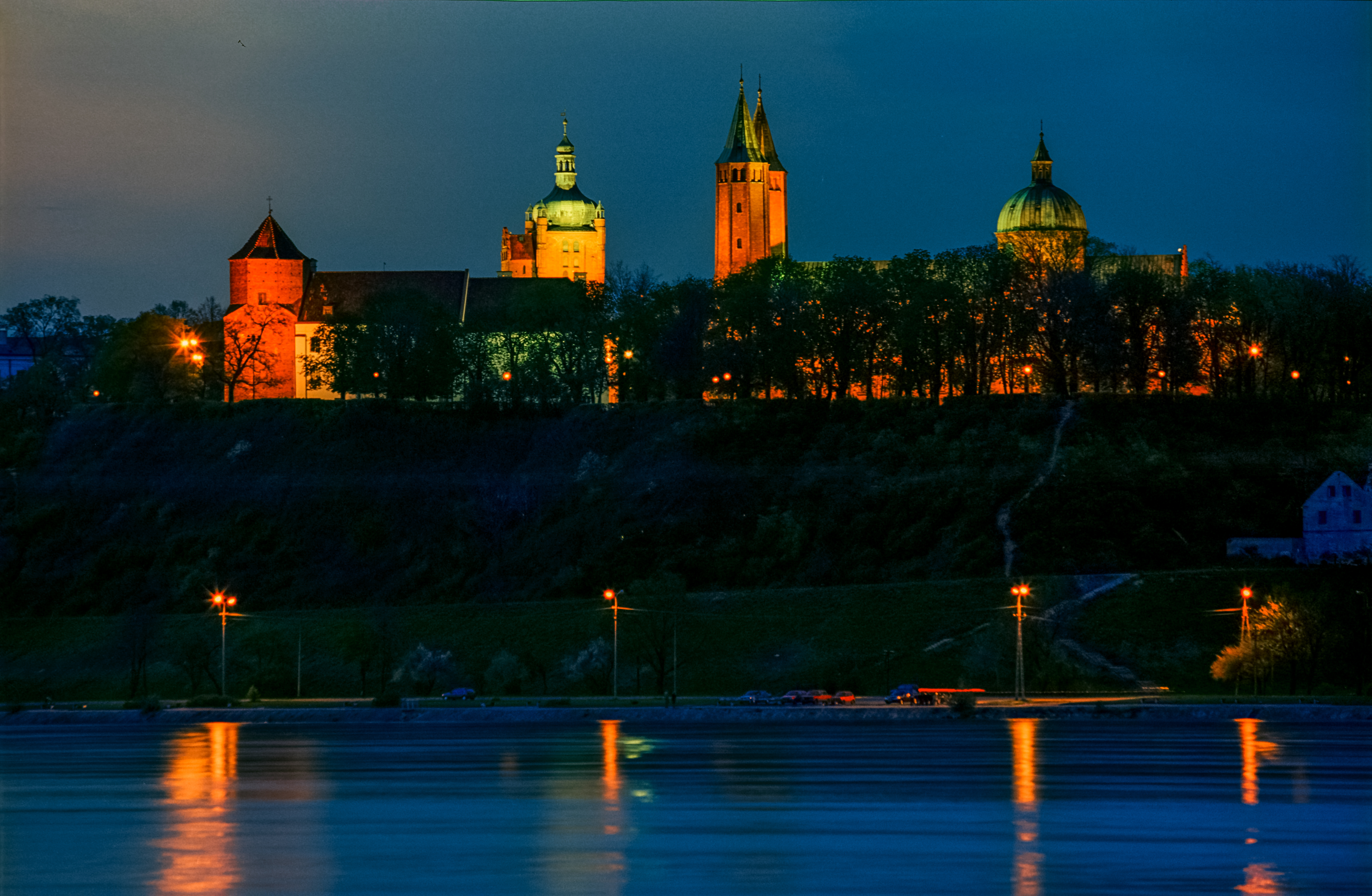 Poland, Plock Castle